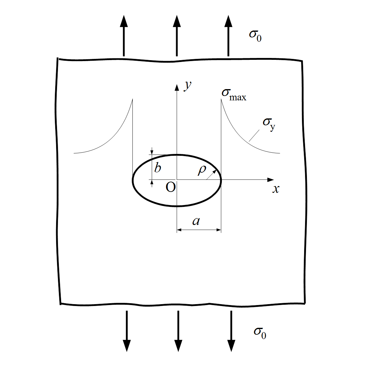 stress concentration by a through elipse subjected to a uniform tensile stress in an inifinite plate